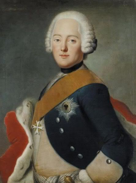 Portrait of Augustus Ferdinand of Prussia (1730-1813)